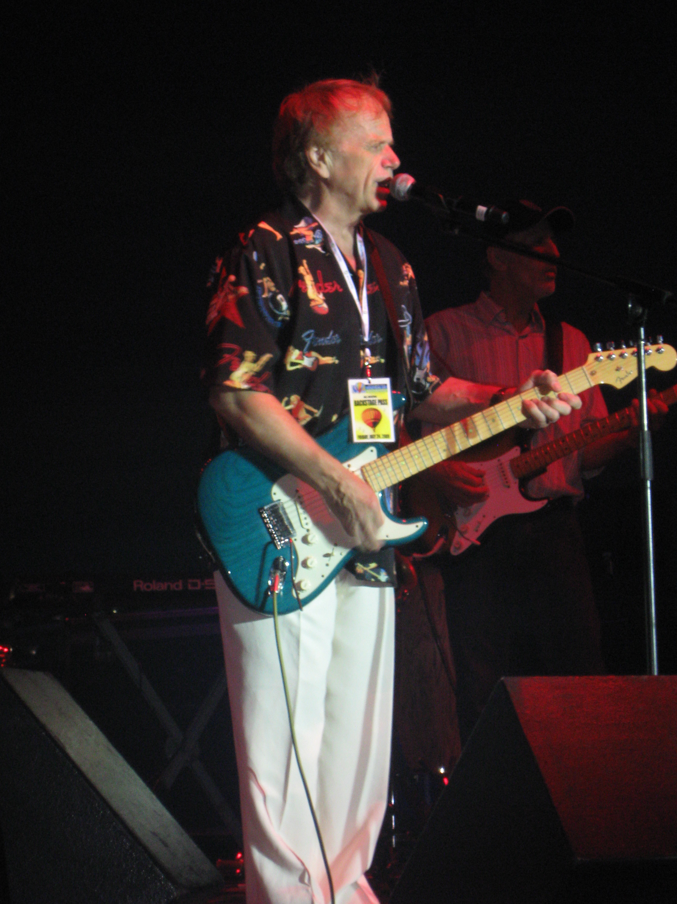 Al Jardine with his Endless Summer Band at the Quick Chek New Jersey Festival of Ballooning Reddington, NJ July 24 2009